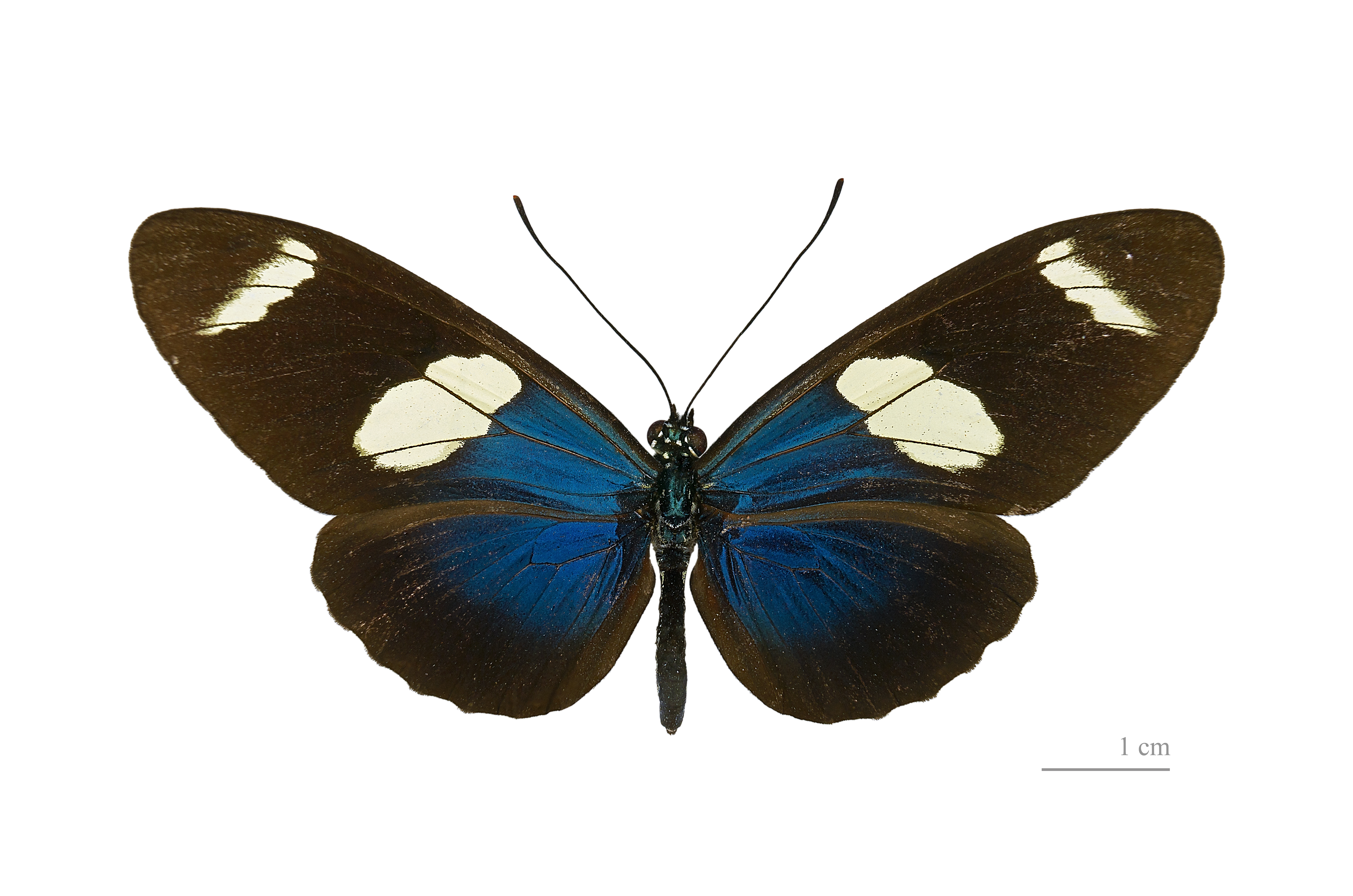 Sara Longwing - Dorsal side